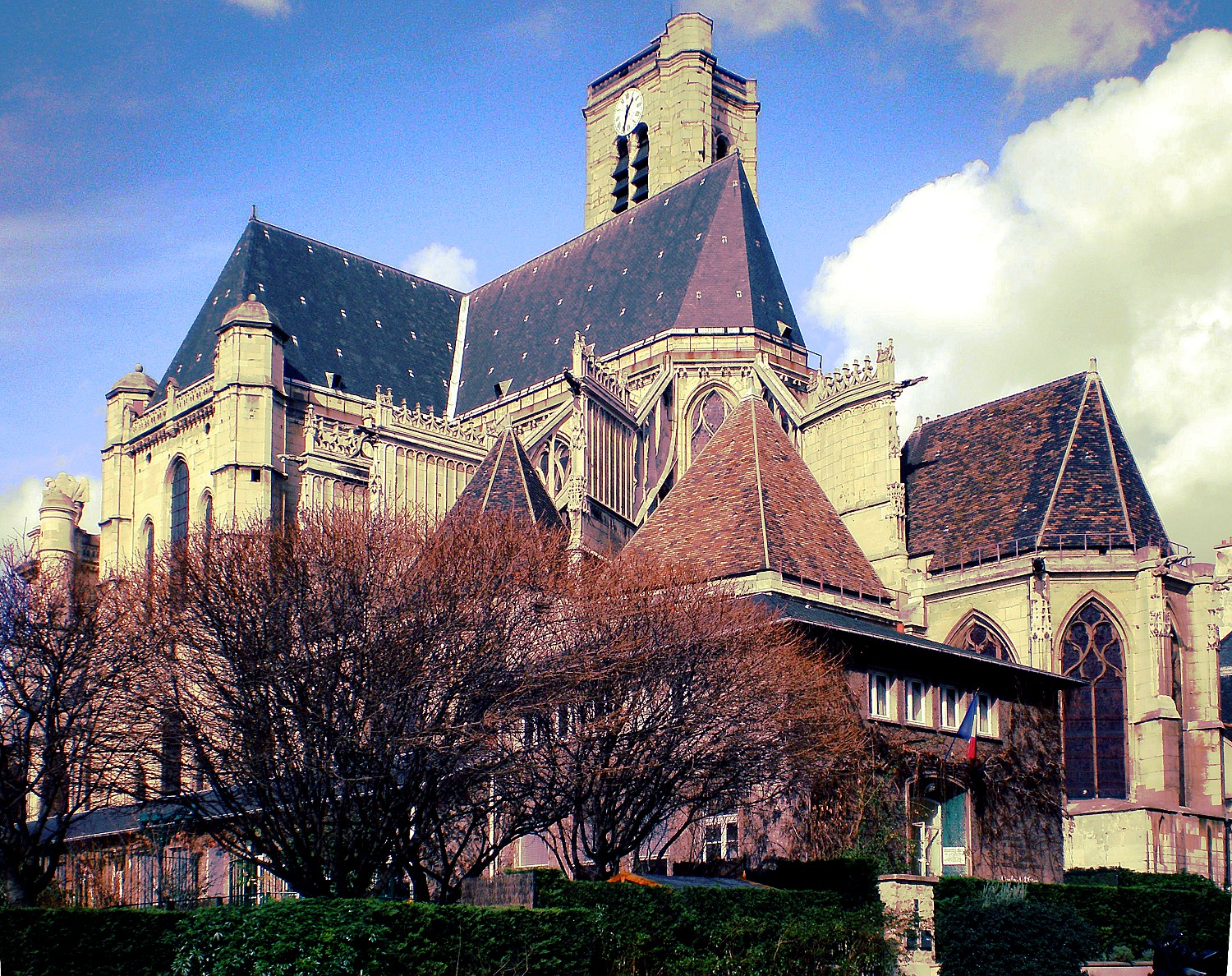 Saint-Gervais Saint-Protais Church - Paris